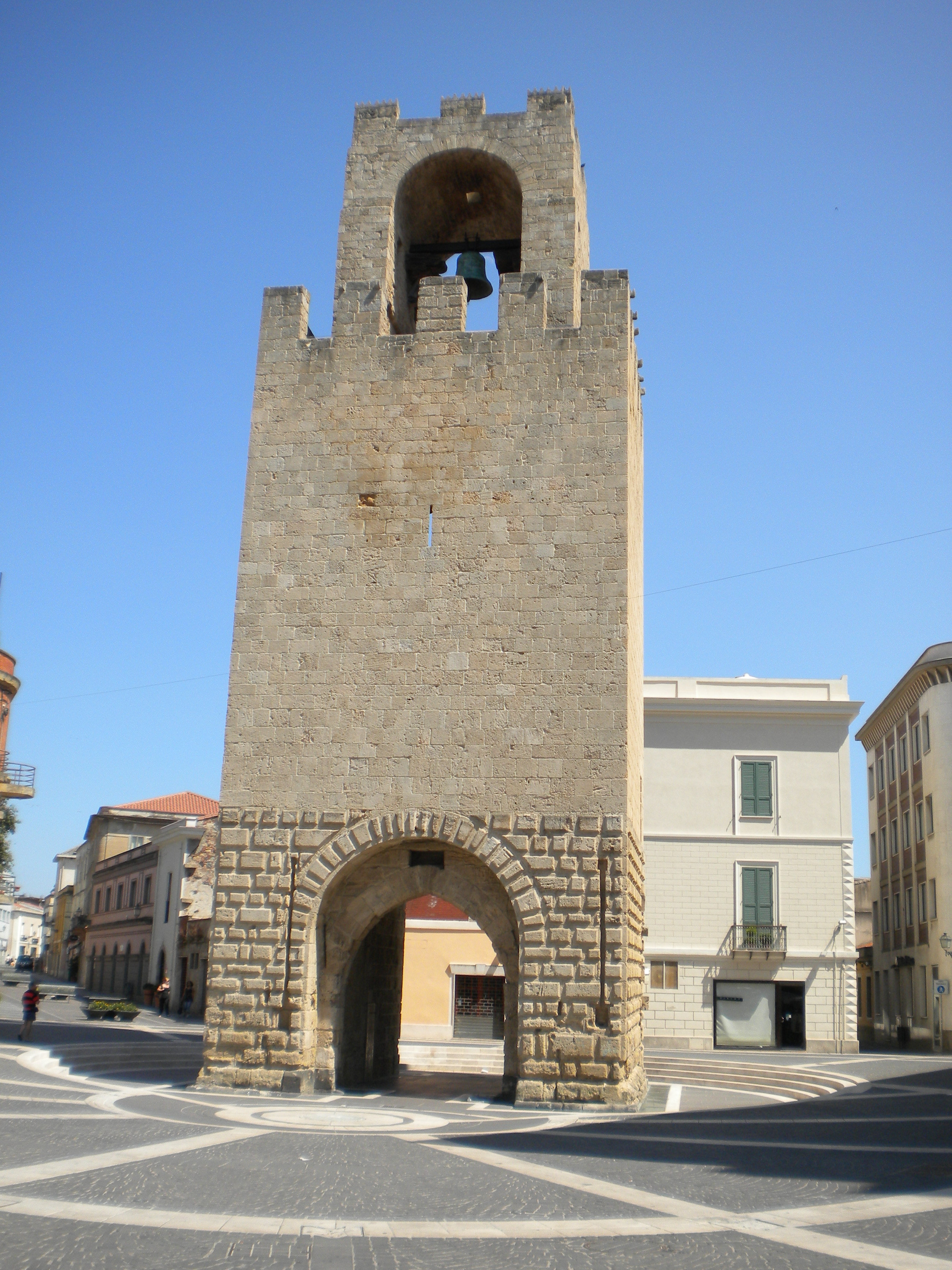 Oristano, tower of piazza Mannu